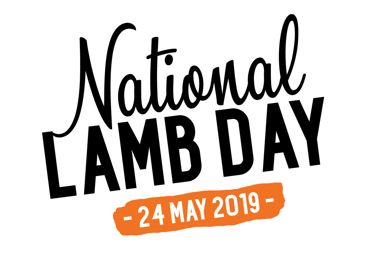 National Lamb Day 2019 logo created by Beef and Lamb New Zealand.